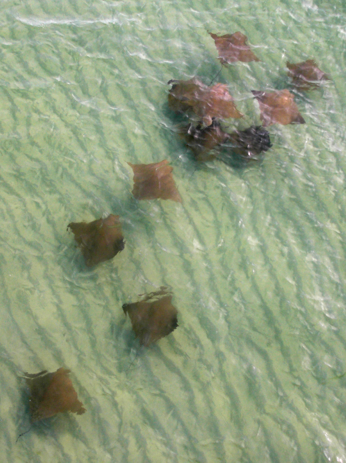 Cownose rays (Rhinoptera bonasus) swimming in the Gulf of Mexico in shallow waters adjacent to the Ft. Walton Beach fishing pier.